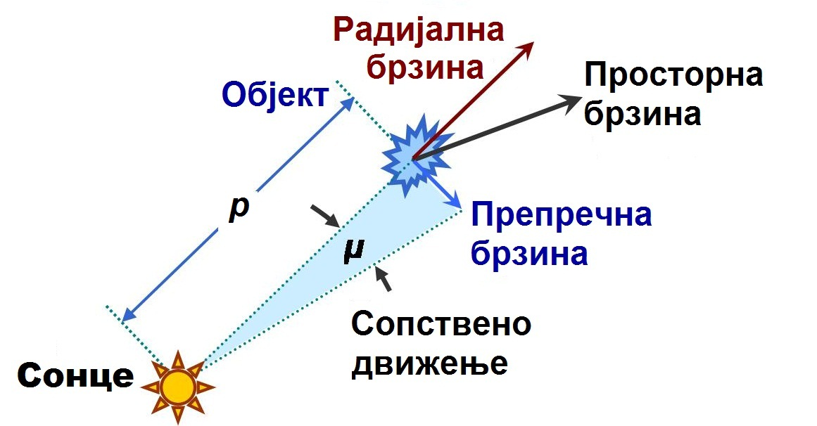 Vectors showing relation between an object's proper motion and its velocity (in Macedonian).